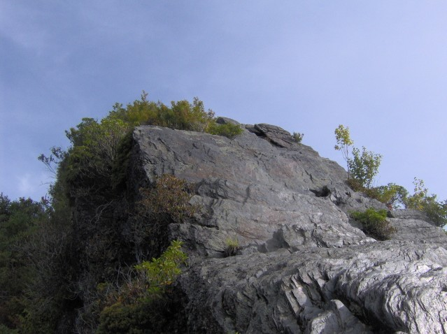 The base of the higher (south) capstone of the Chimney Tops in the Great Smoky Mountains. This point can be reached from US-441 via the Chimney Tops Trail. The capstones, consisting of folded metamorphic rock, are fairly easy climb, requiring no technical gear.